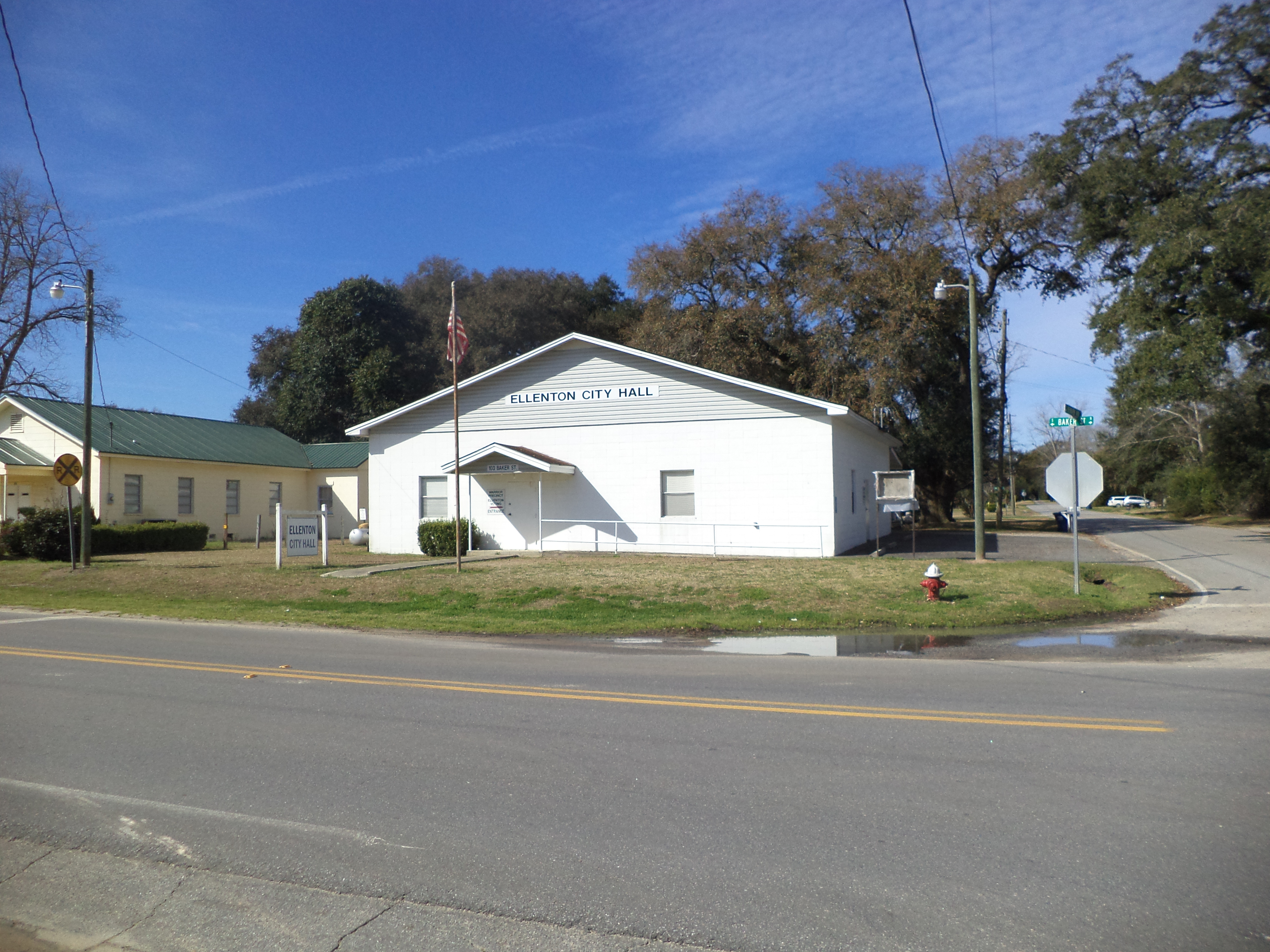 Ellenton City Hall, 103 N Baker St, Ellenton, Colquitt County, Georgia